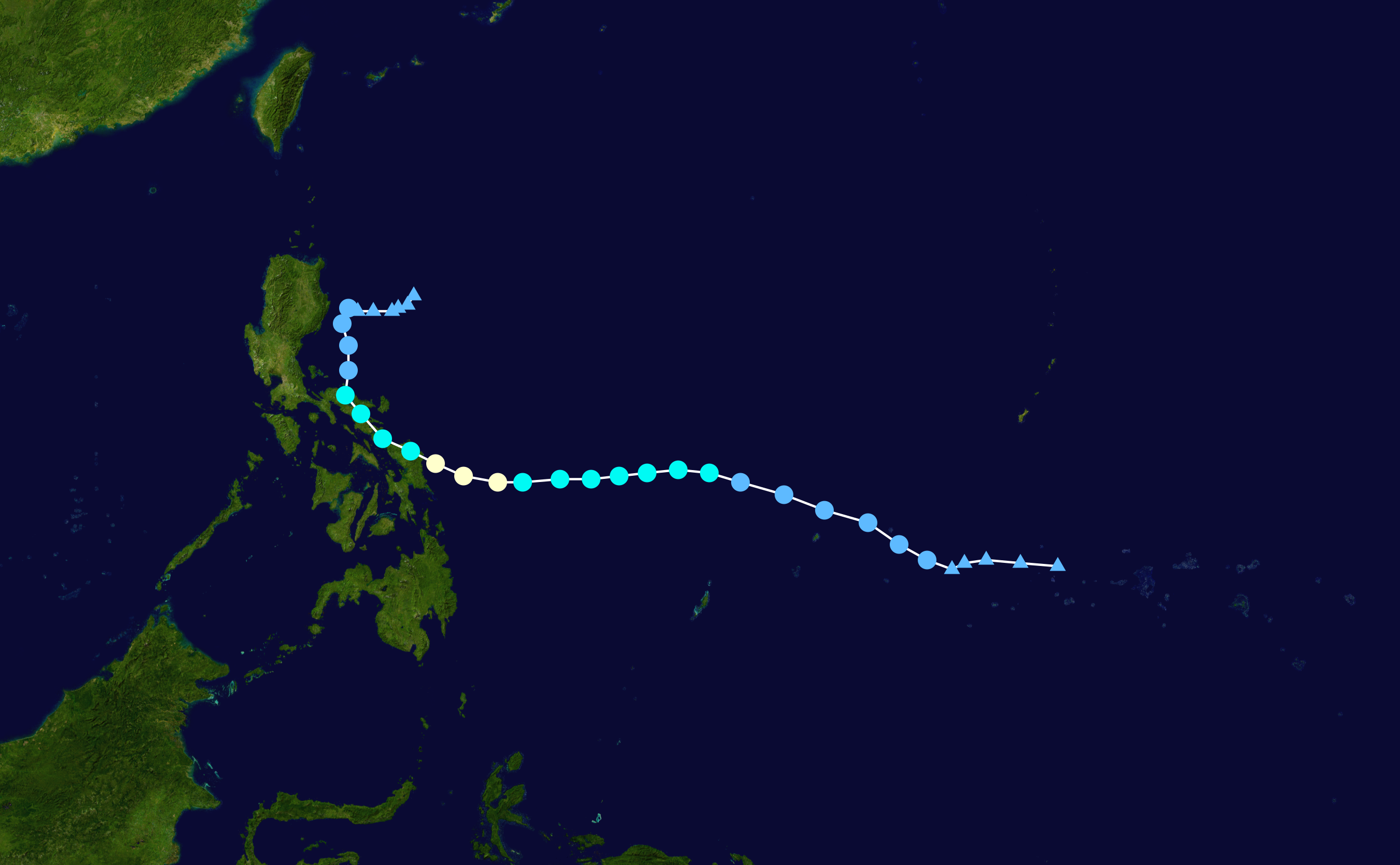 Track map of Severe Tropical Storm Mekkhala of the 2015 Pacific typhoon season. The points show the location of the storm at 6-hour intervals. The colour represents the storm's maximum sustained wind speeds as classified in the Saffir–Simpson scale (see below), and the shape of the data points represent the nature of the storm, according to the legend below. Saffir–Simpson scale Tropical depression≤38 mph≤62 km/h Category 3111–129 mph178–208 km/h Tropical storm39–73 mph63–118 km/h Category 4130–156 mph209–251 km/h Category 174–95 mph119–153 km/h Category 5≥157 mph≥252 km/h Category 296–110 mph154–177 km/h Unknown Storm type Tropical cyclone Subtropical cyclone Extratropical cyclone / Remnant low / Tropical disturbance / Monsoon depression